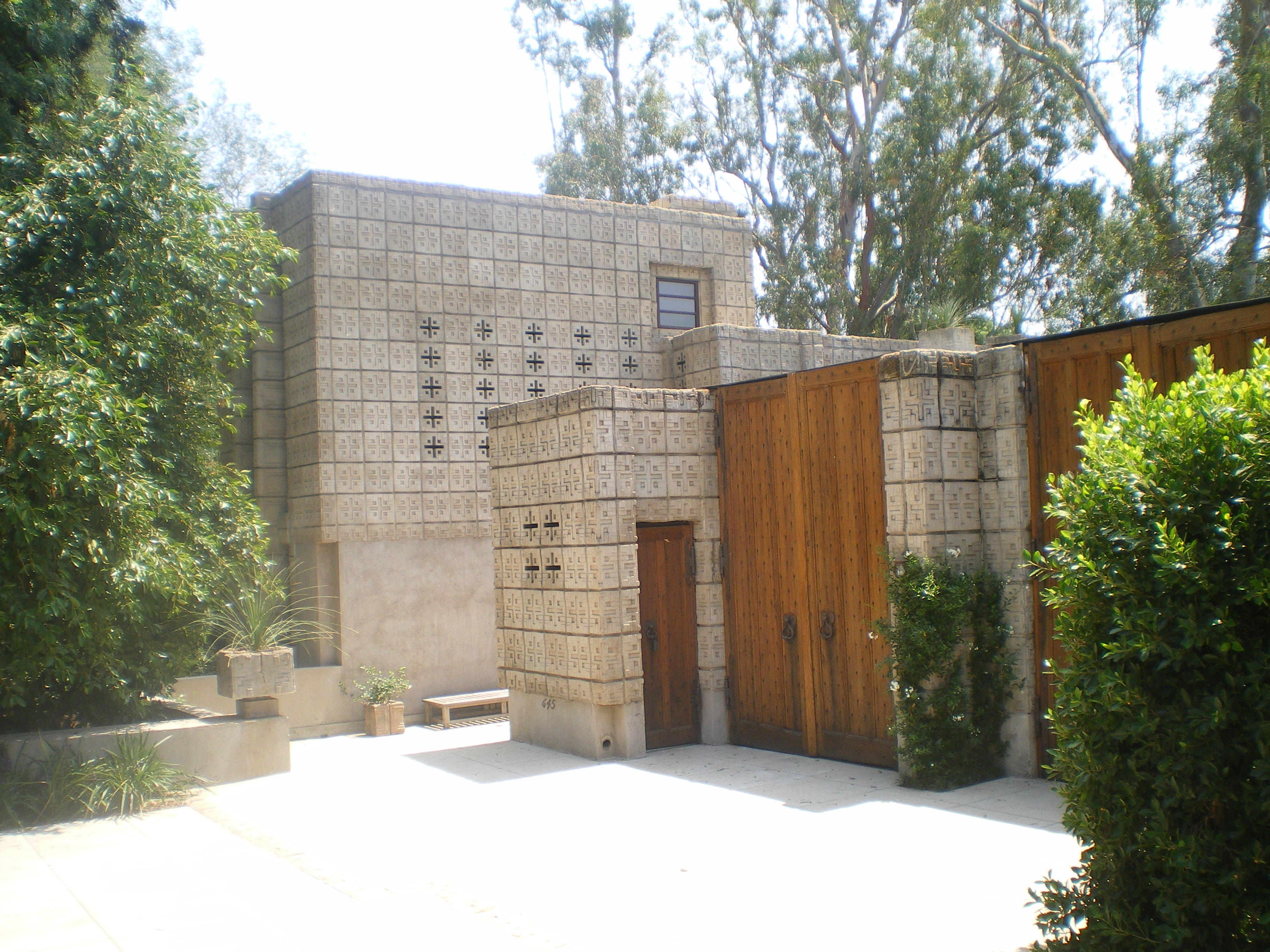 Millard House, 645 Prospect Crescent, Pasadena, California